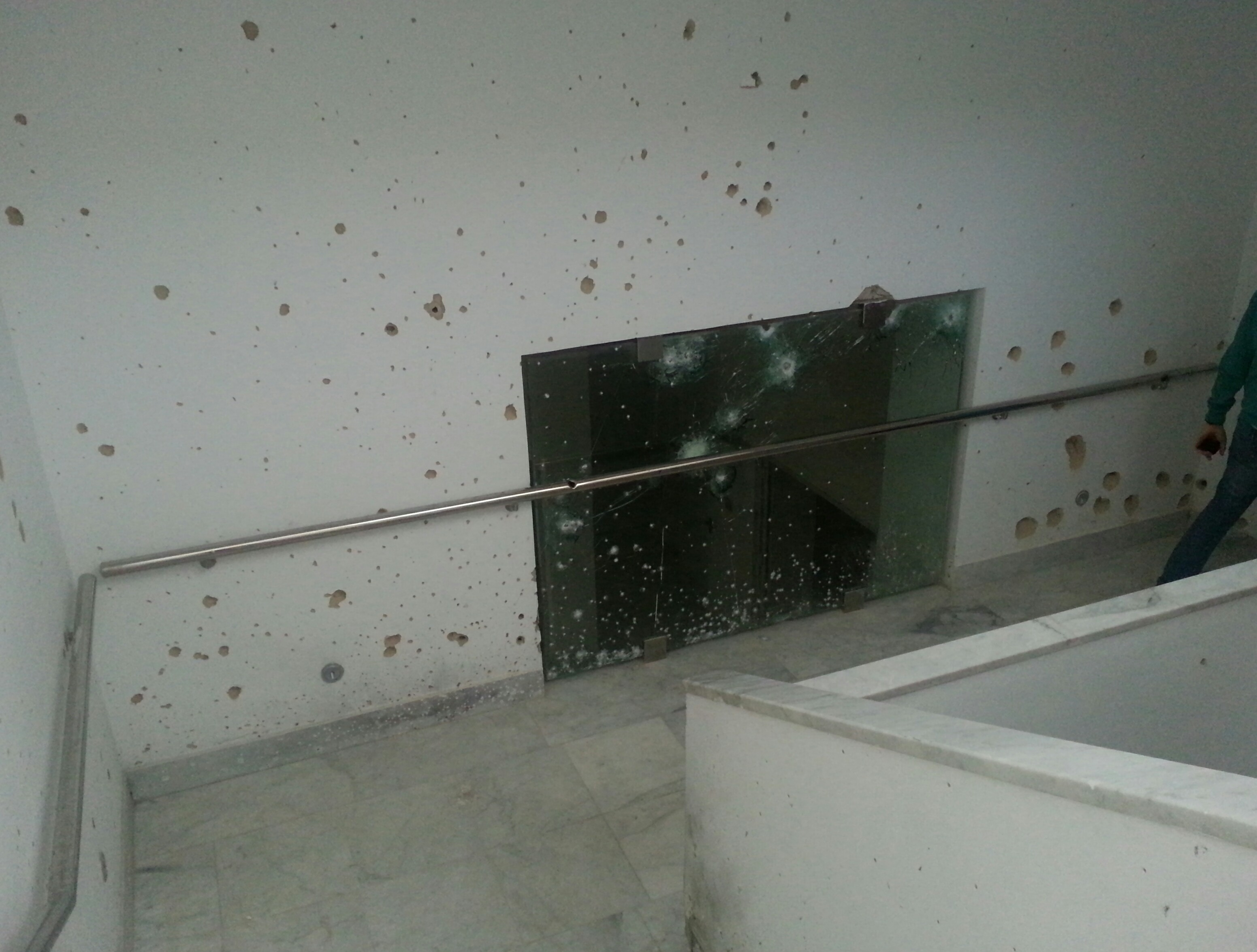 After the shooting in the Bardo museum, in Tunis, it reopened. These are now a part of the history this museum conveys.